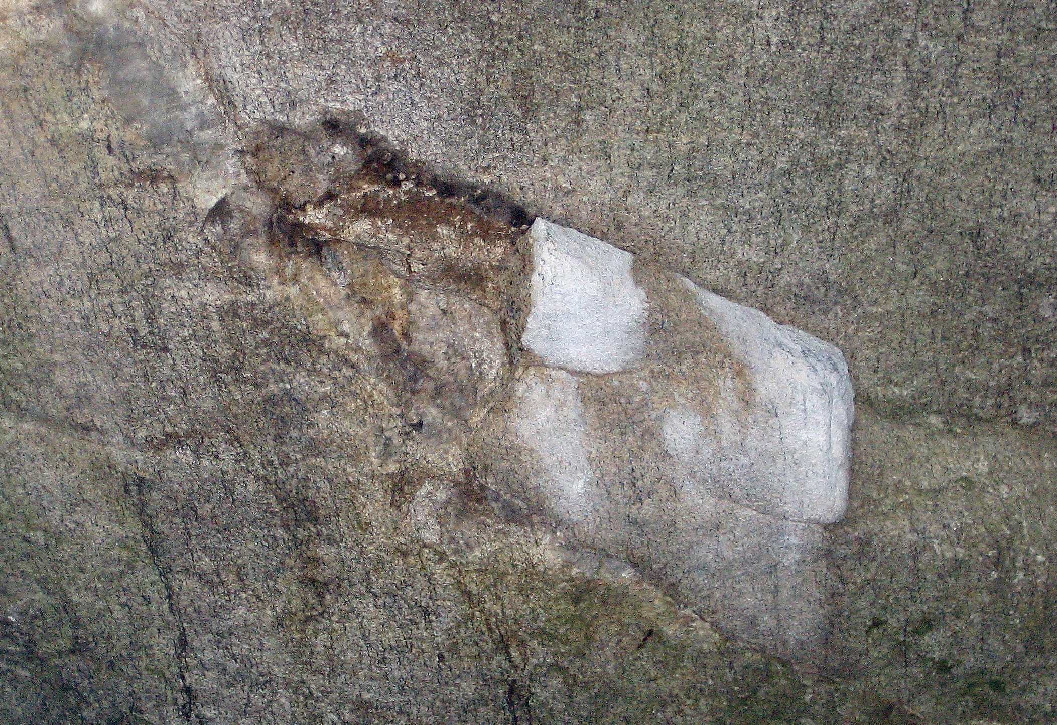 Dreamtime Boulder in Cresciano - broken hold